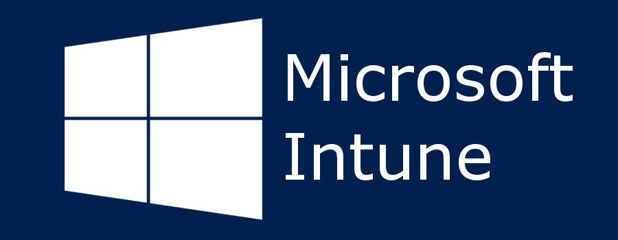 Logo of Microsoft Intune